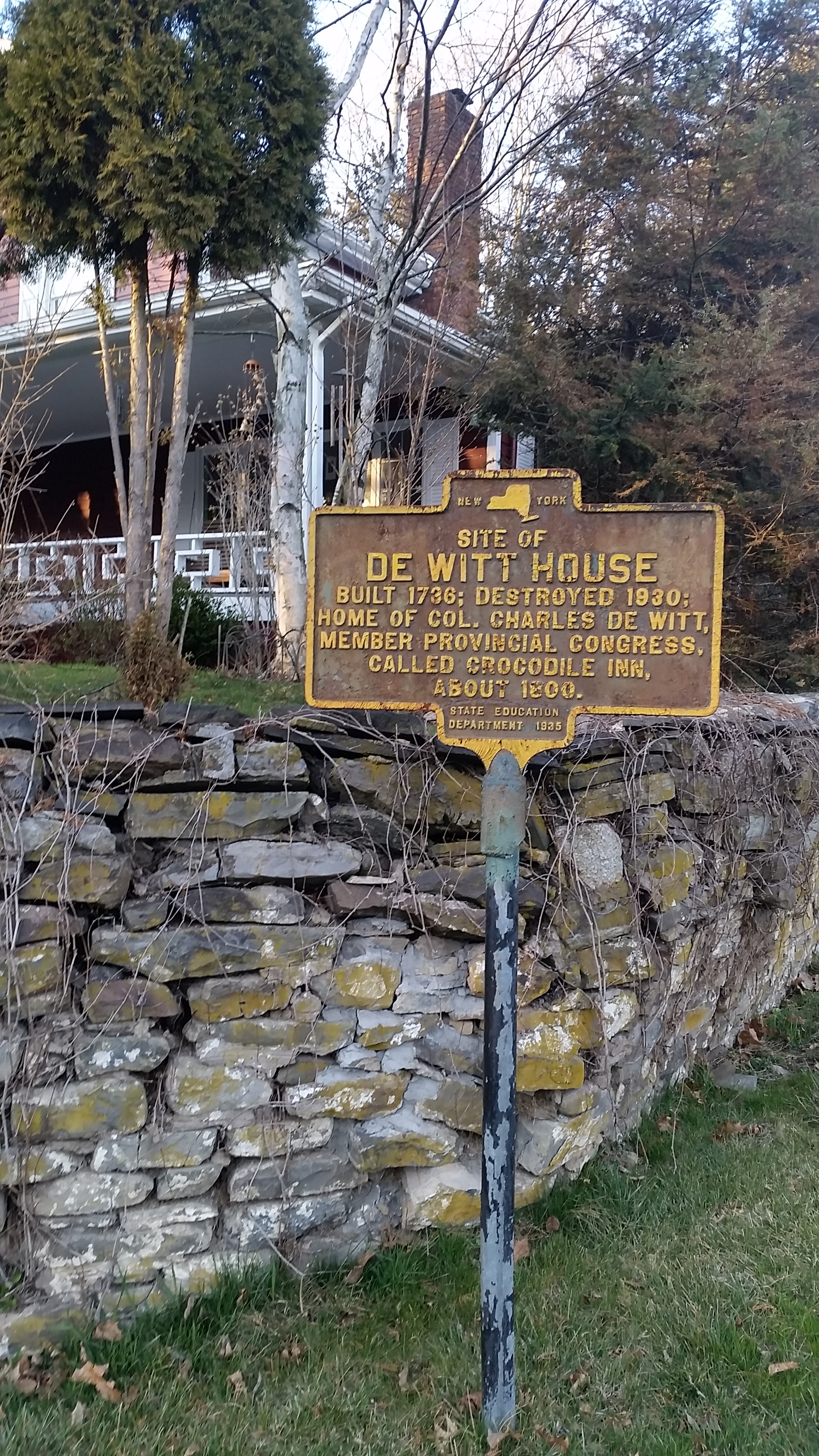 New York State historical marker (in Ulster County) for the the DeWitt Home (owned by Charles_DeWitt in Rosendale, NY